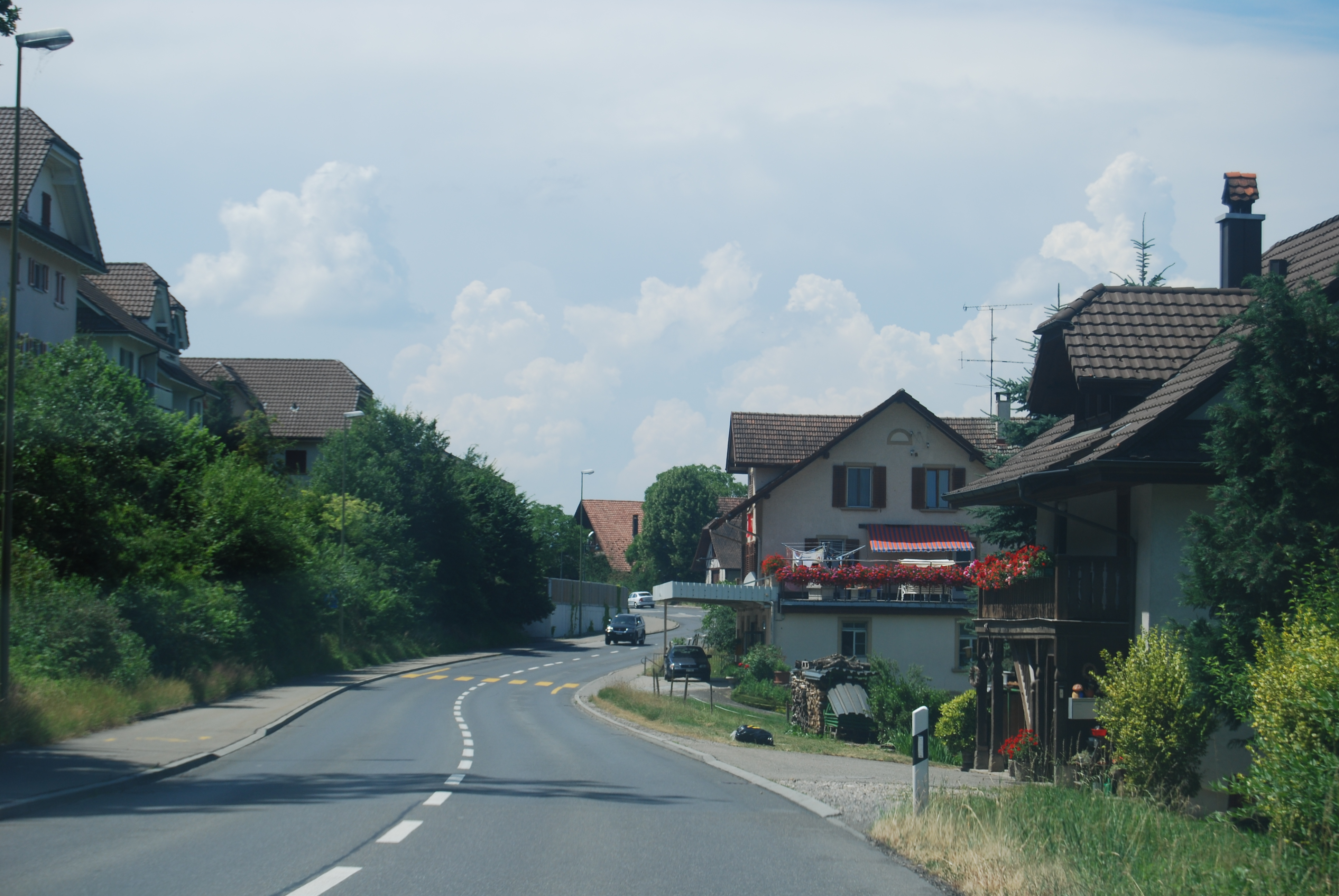 Mauensee, canton of Luzern, Switzerland